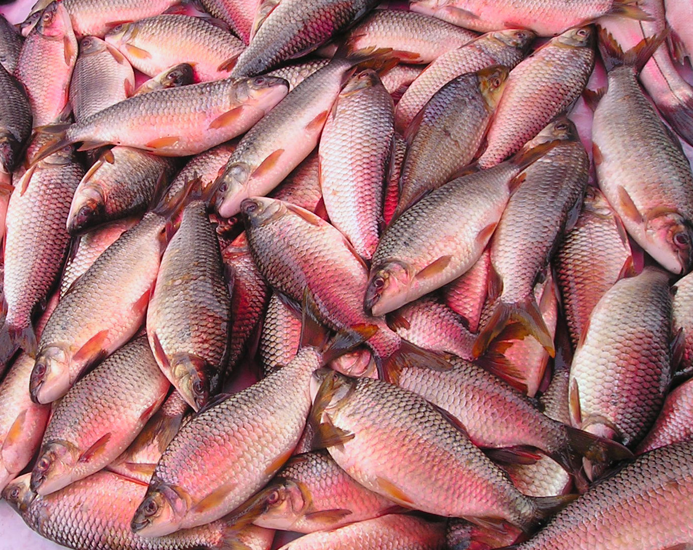 Those are Bocachicos (Ichthyoelephas humeralis) from Babahoyo's river...